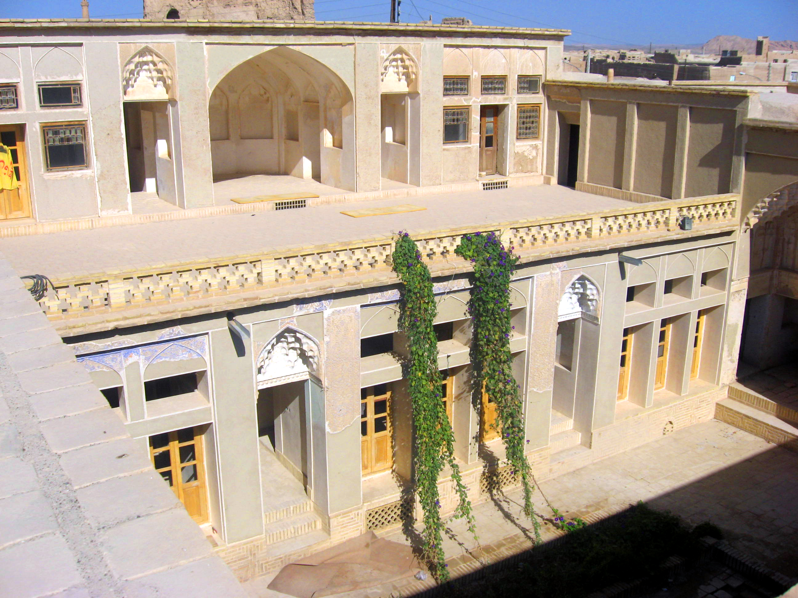 Fatemi traditional house